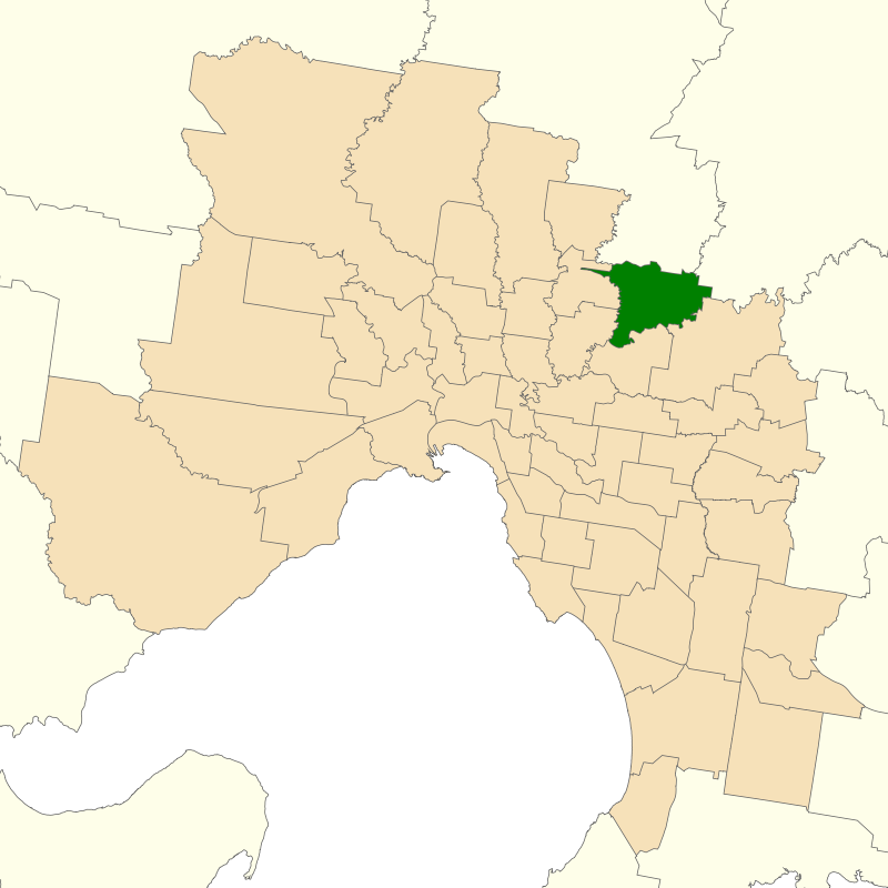 Location of the Victorian electoral district of Eltham (dark green) in the Greater Melbourne area.